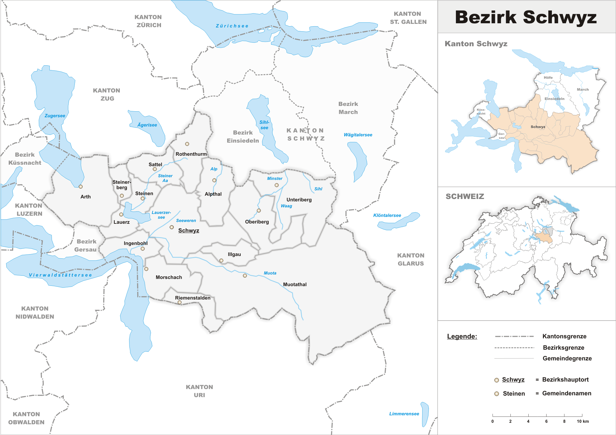 Municipalities in the district of Schwyz